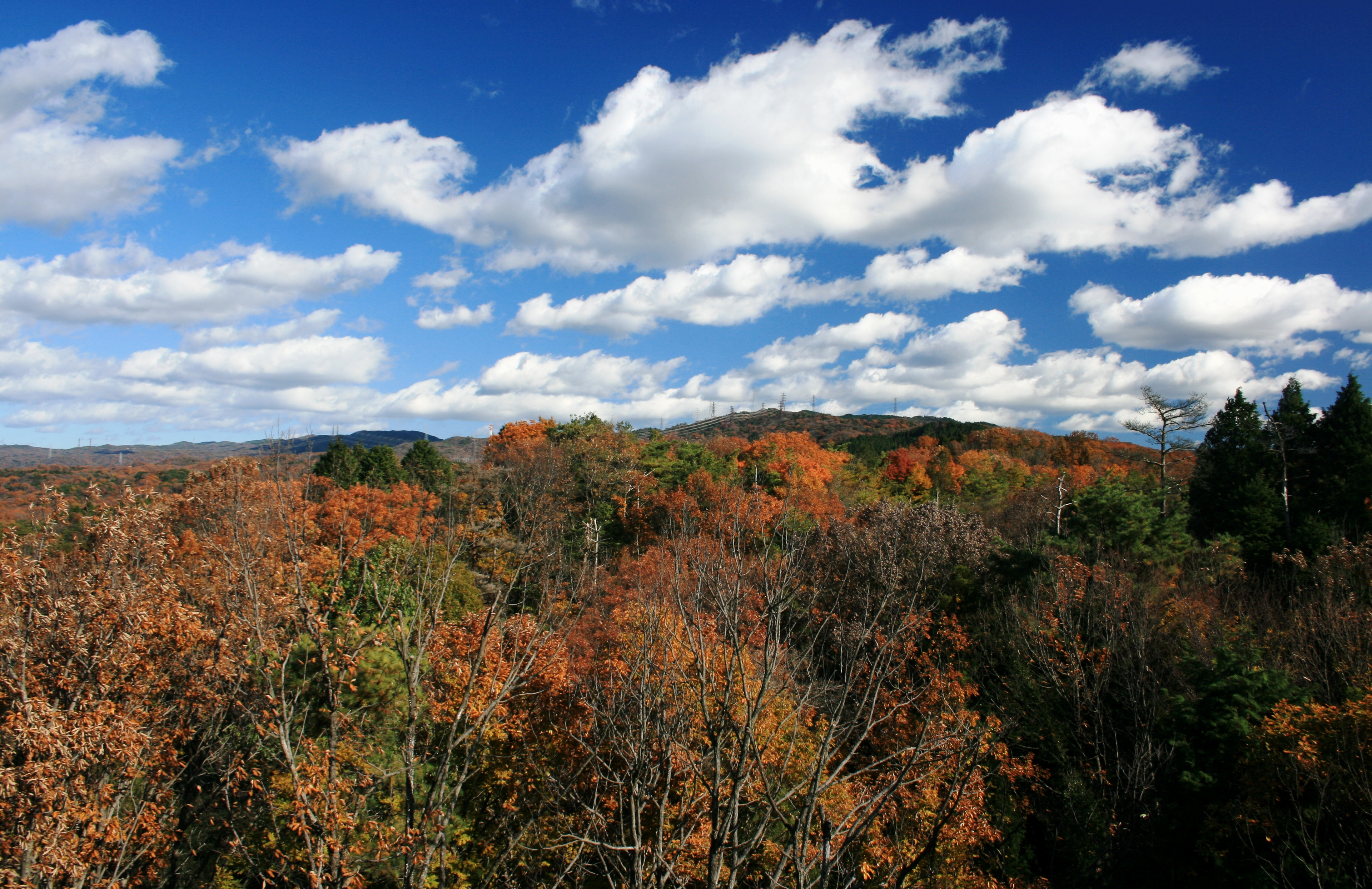 Trees of Kaisho Forest